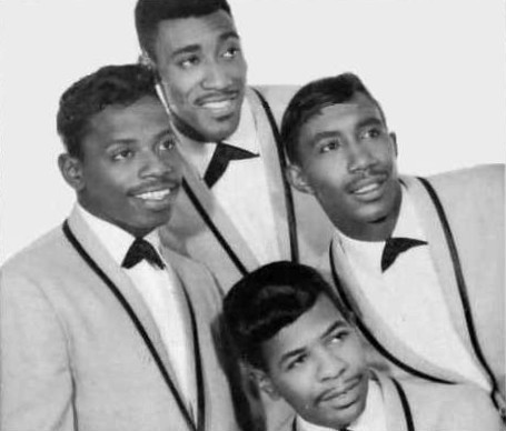 Photo of the music group The Artistics.